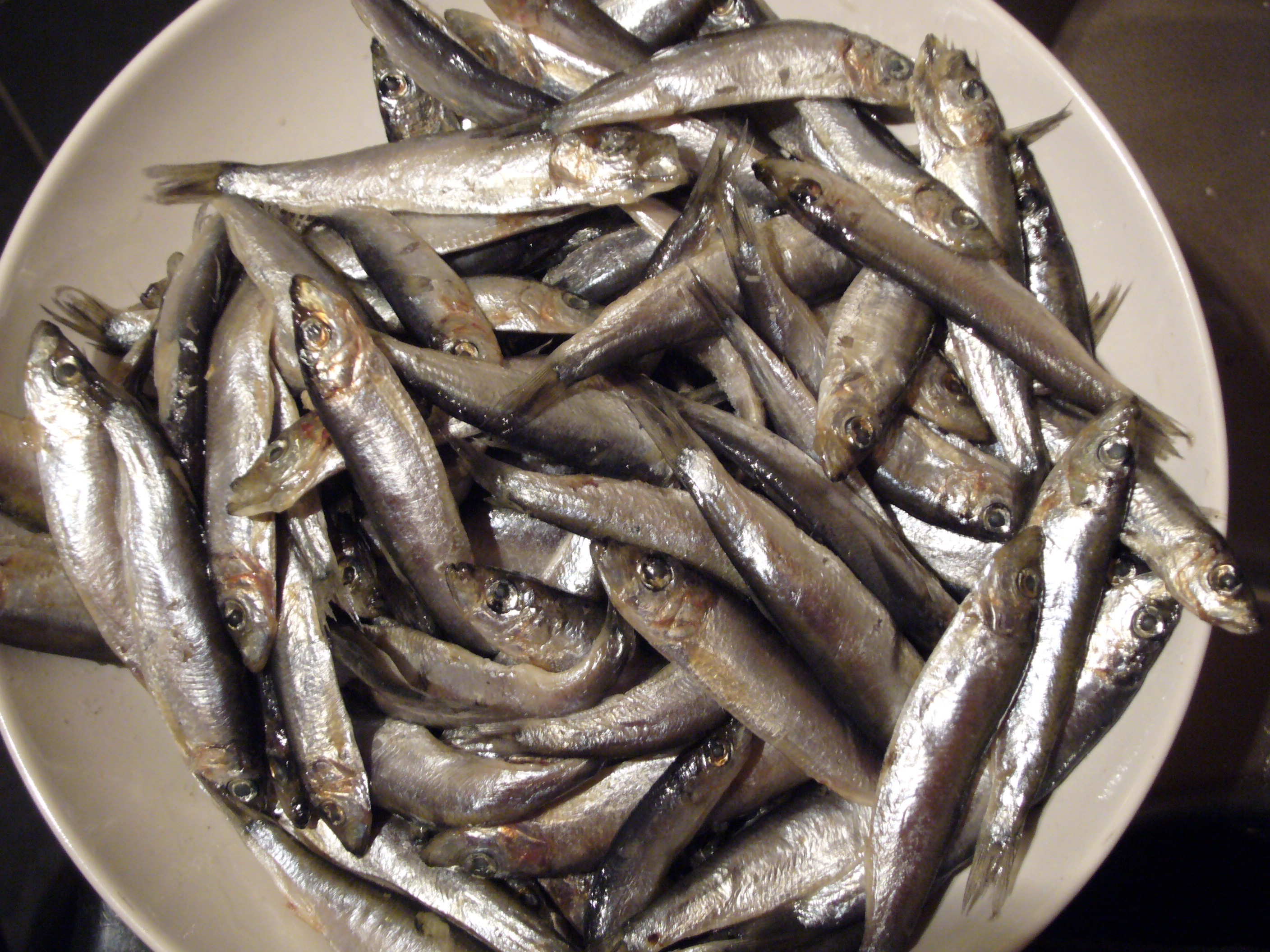 a bowl of raw Bulgarian whitebait